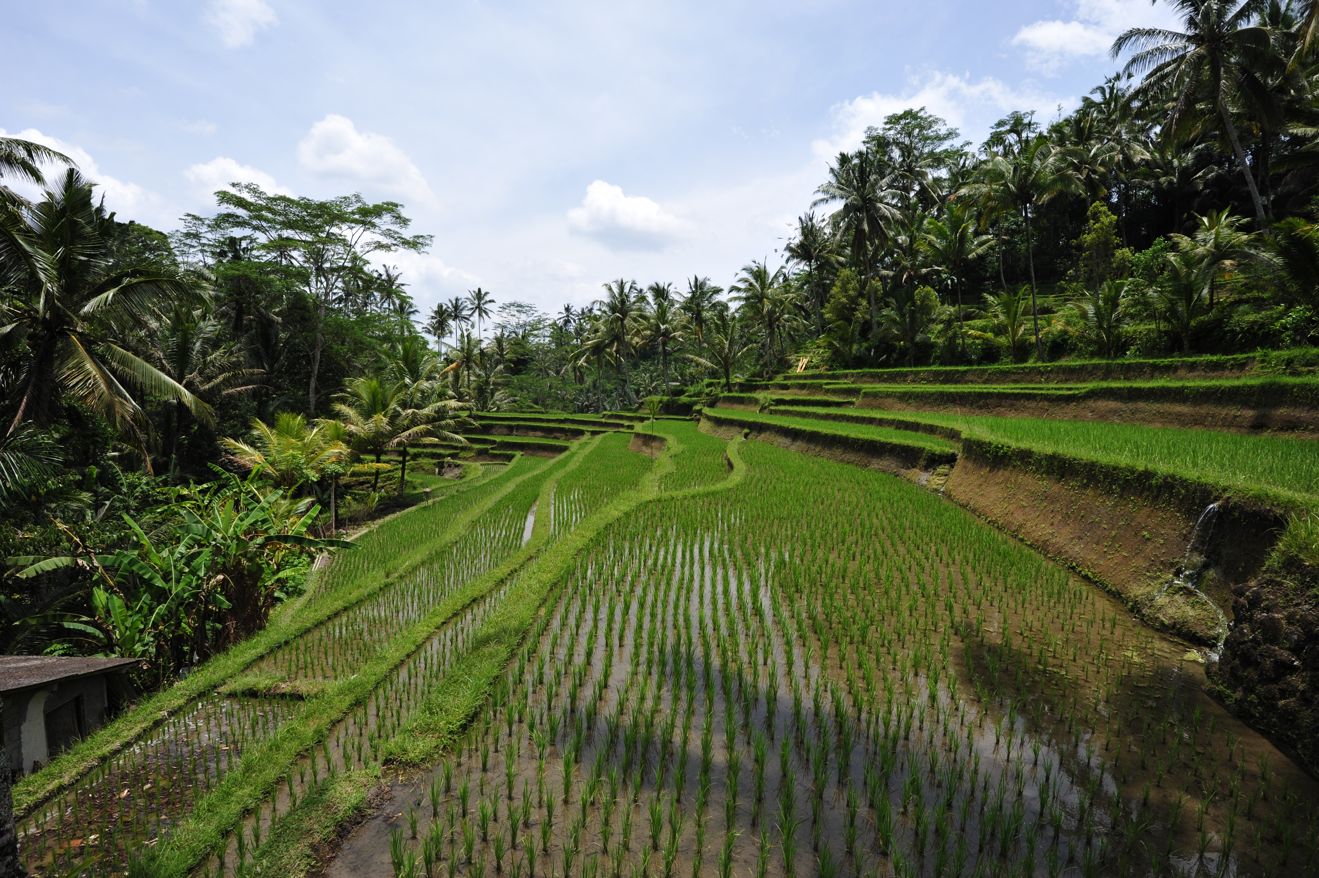 Bali rice terrace 2011